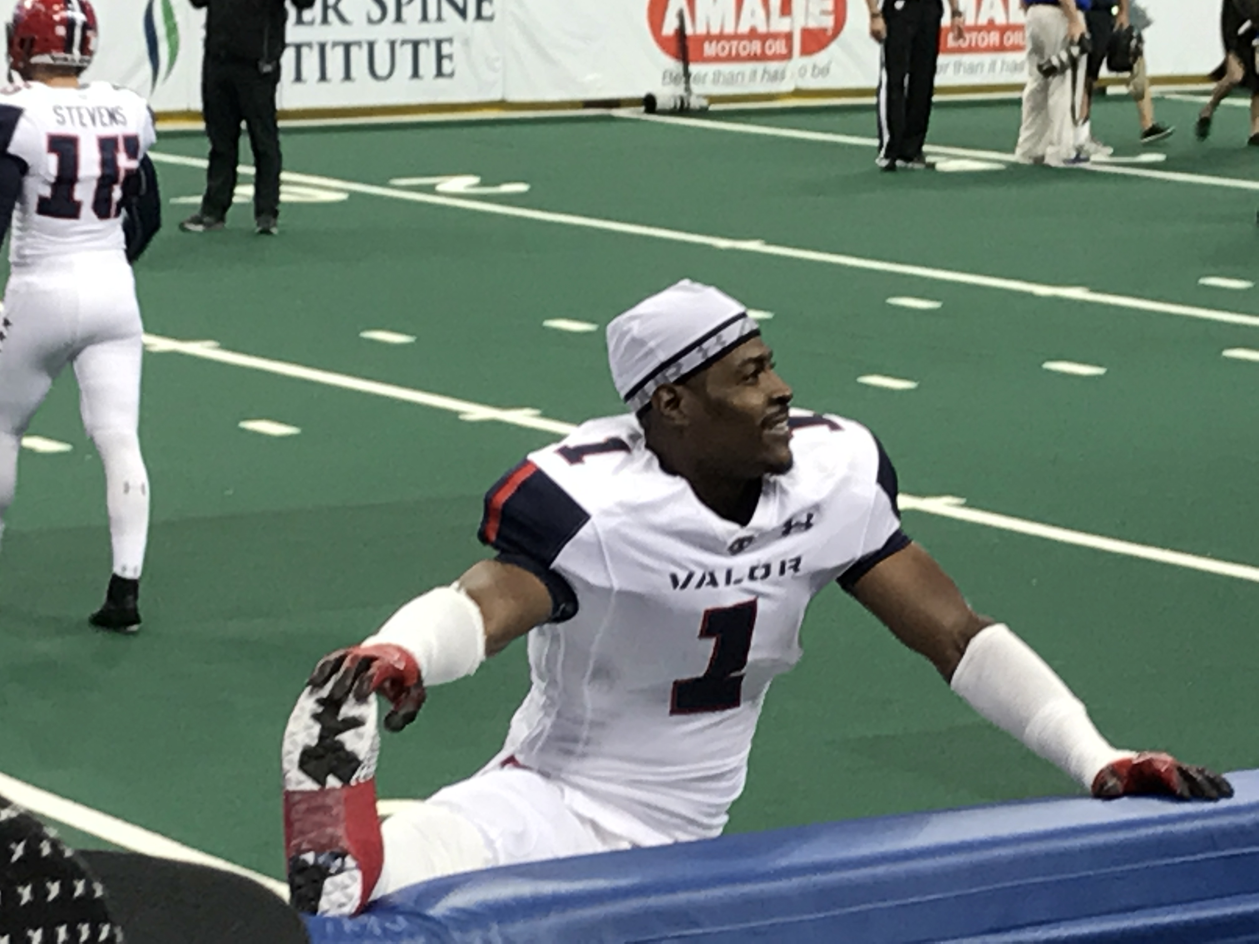 T. T. Toliver